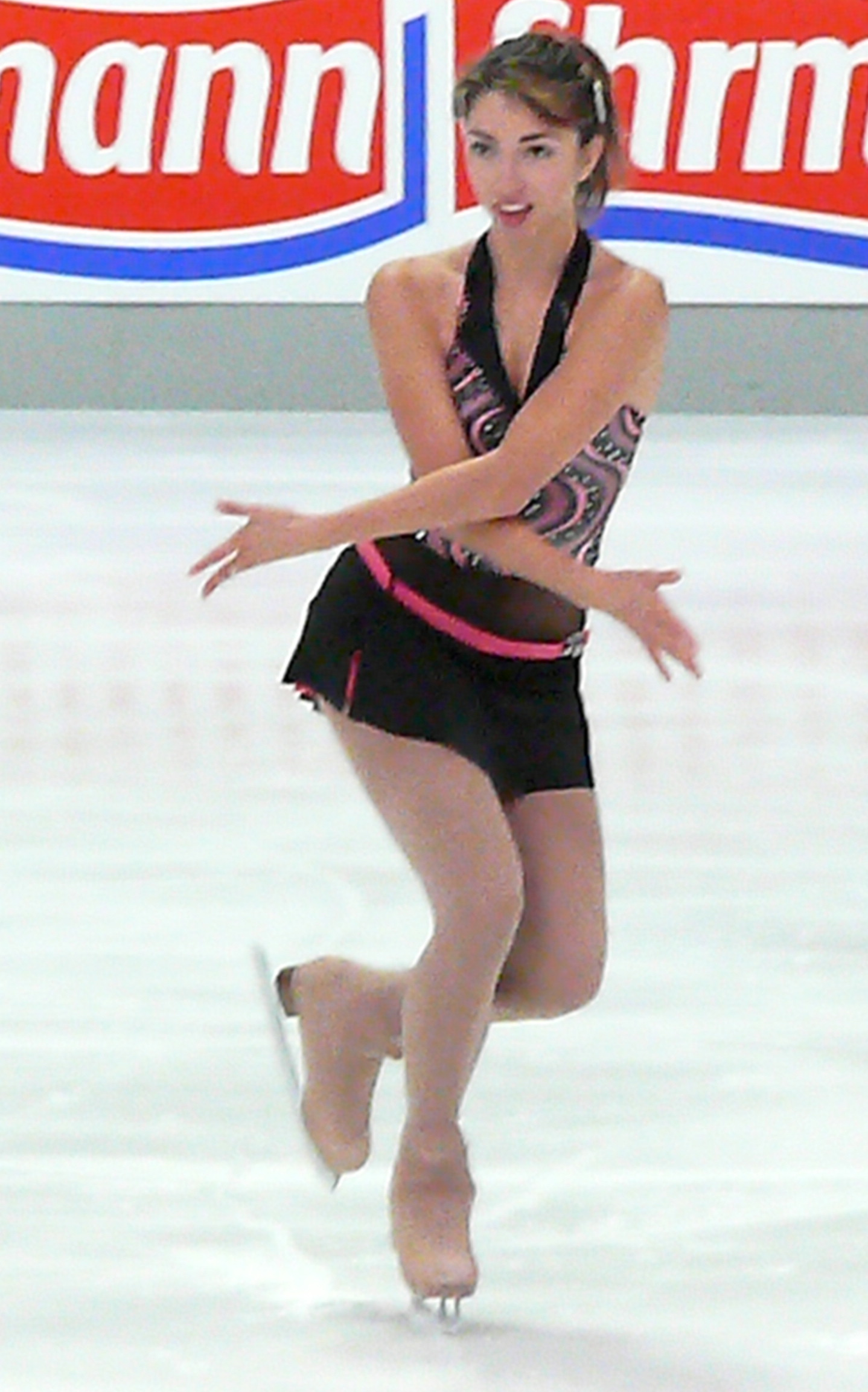 Tuğba Karademir (Turkey) at the short program of the Nebelhorn Trophy 2007 in Oberstdorf/Germany